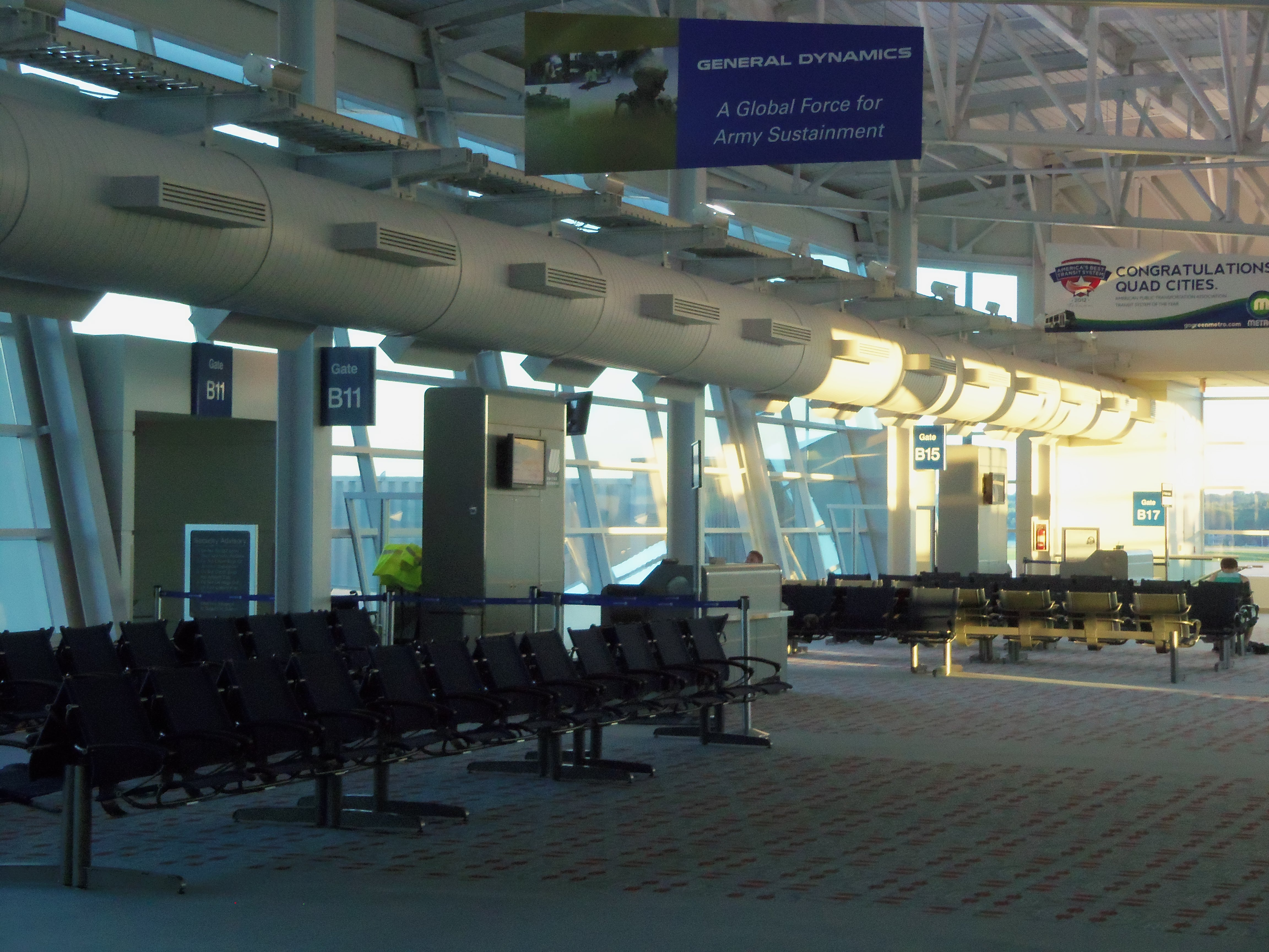 B Concourse gates at Quad City International Airport in Moline, Illinois.